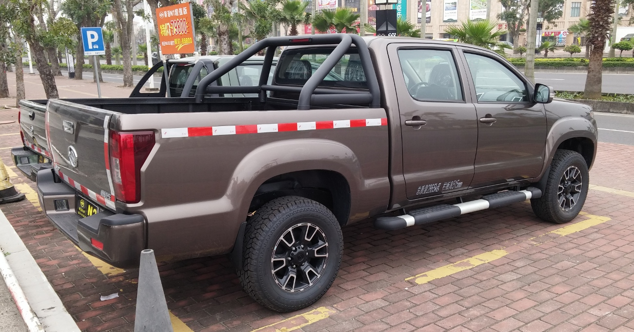 Huanghai N2 photographed in Zhanjiang, Guangdong province, China.